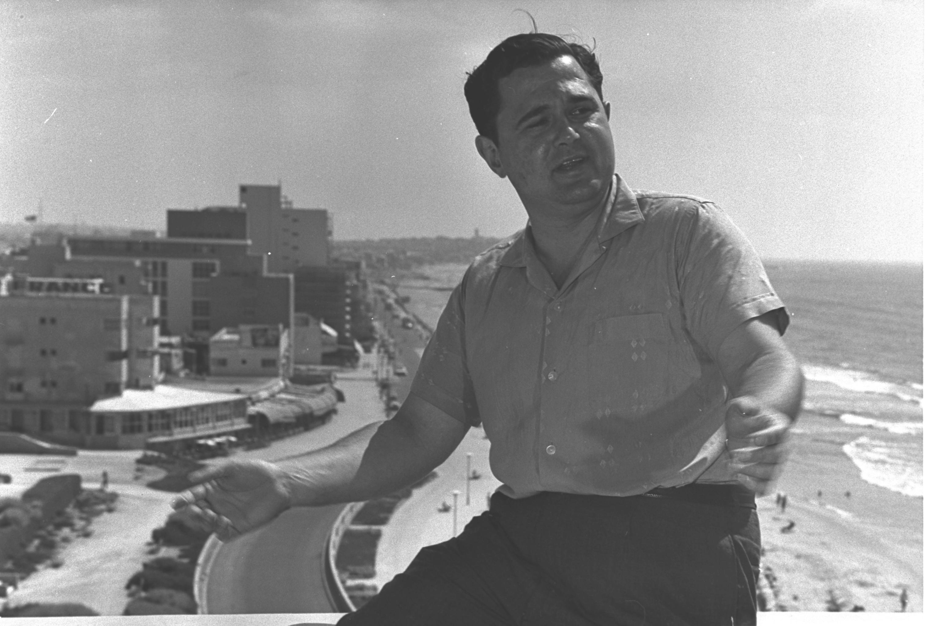 Eugene George Istomin (November 26, 1925 – October 10, 2003), an American pianist, during a visit to Israel, 1961.